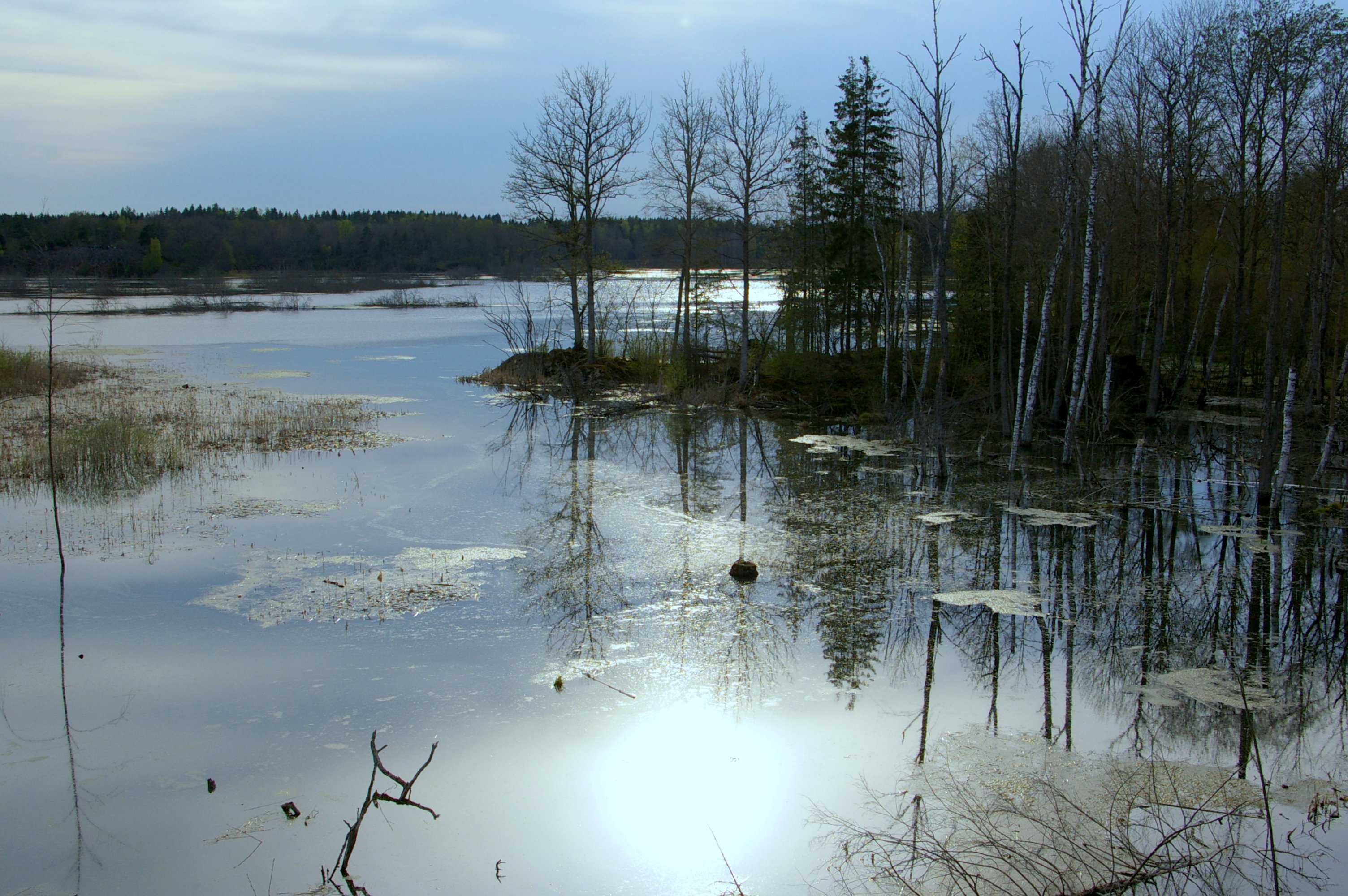 Rosenkällasjön in nature reserves Tinnerö eklandskap, Linköpings kommun, Östergötland, Sweden.